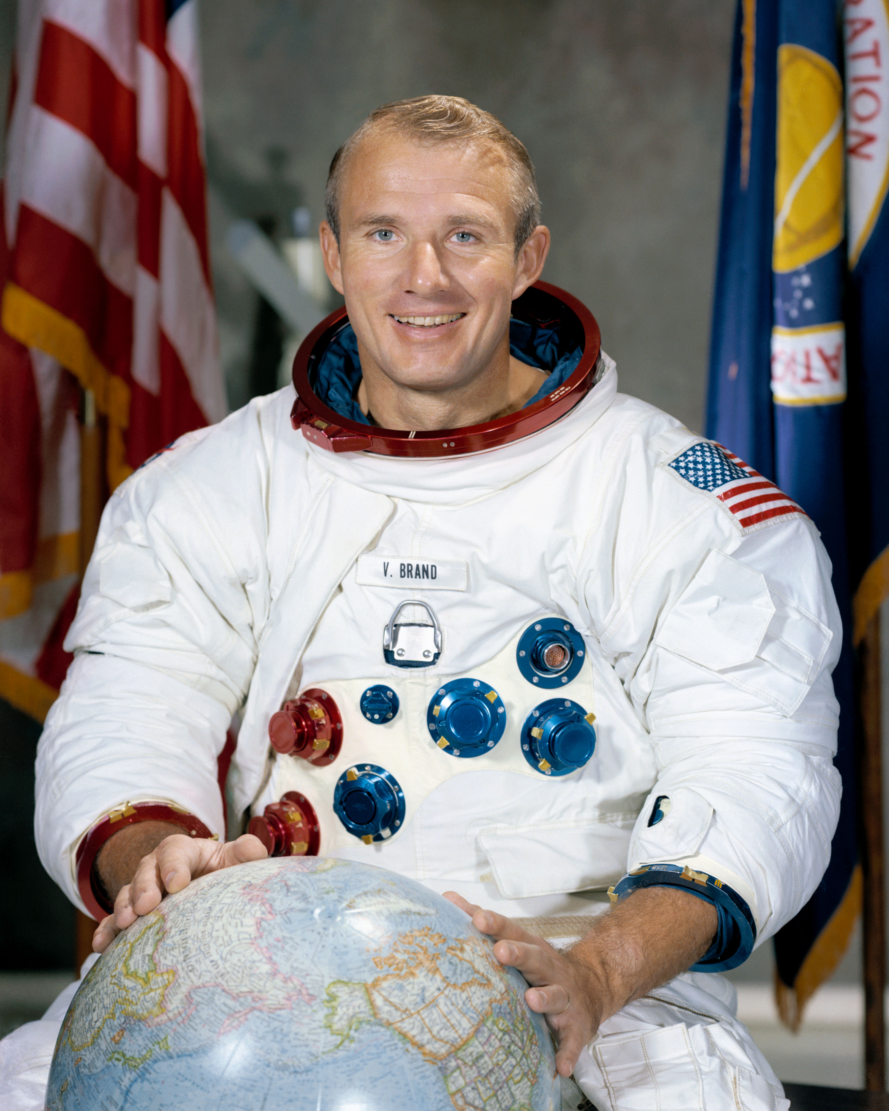 Vance Brand portrait